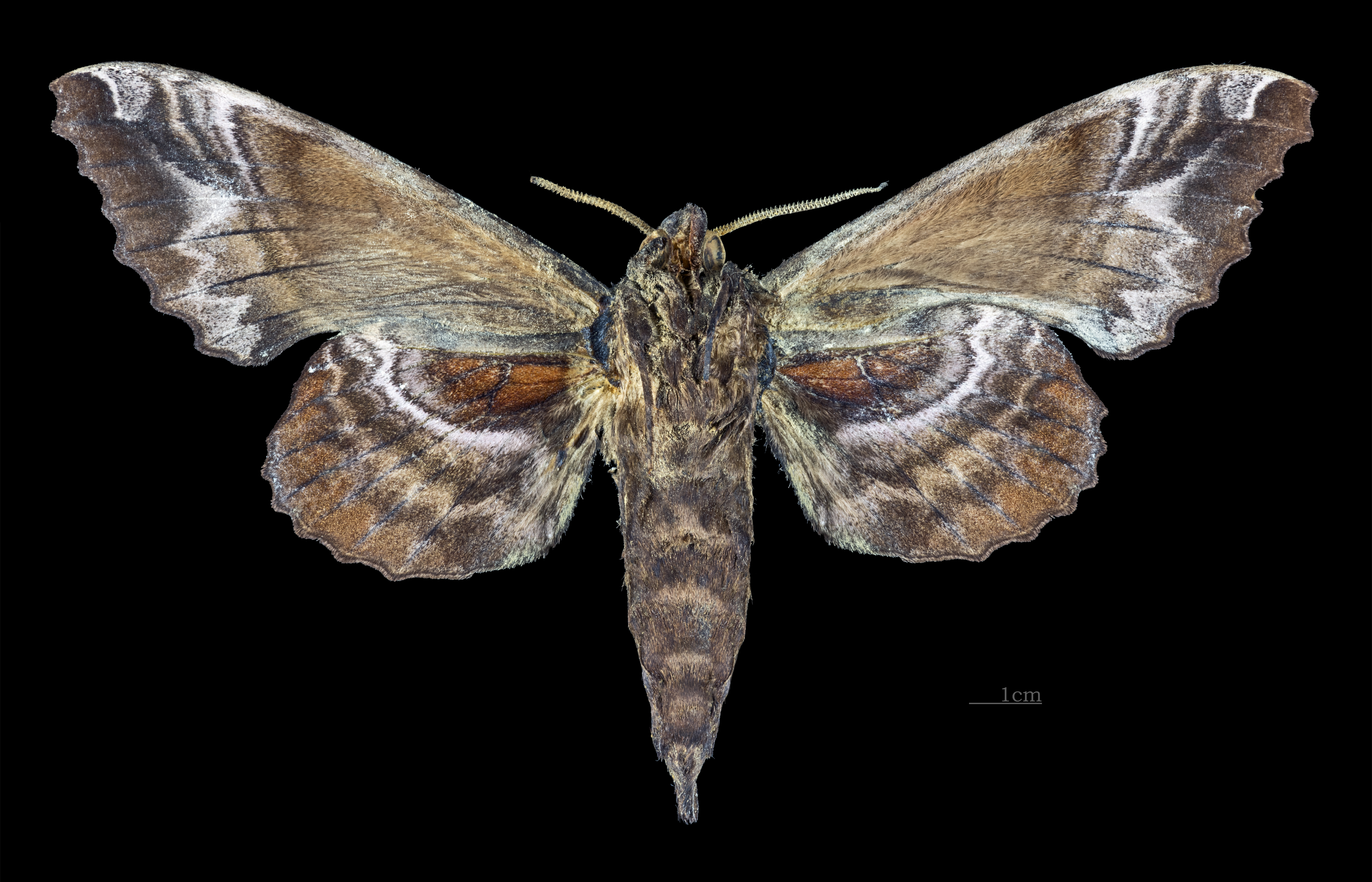 Phyllosphingia dissimilis - △ Ventral side Collection of the Mathematician Laurent Schwartz